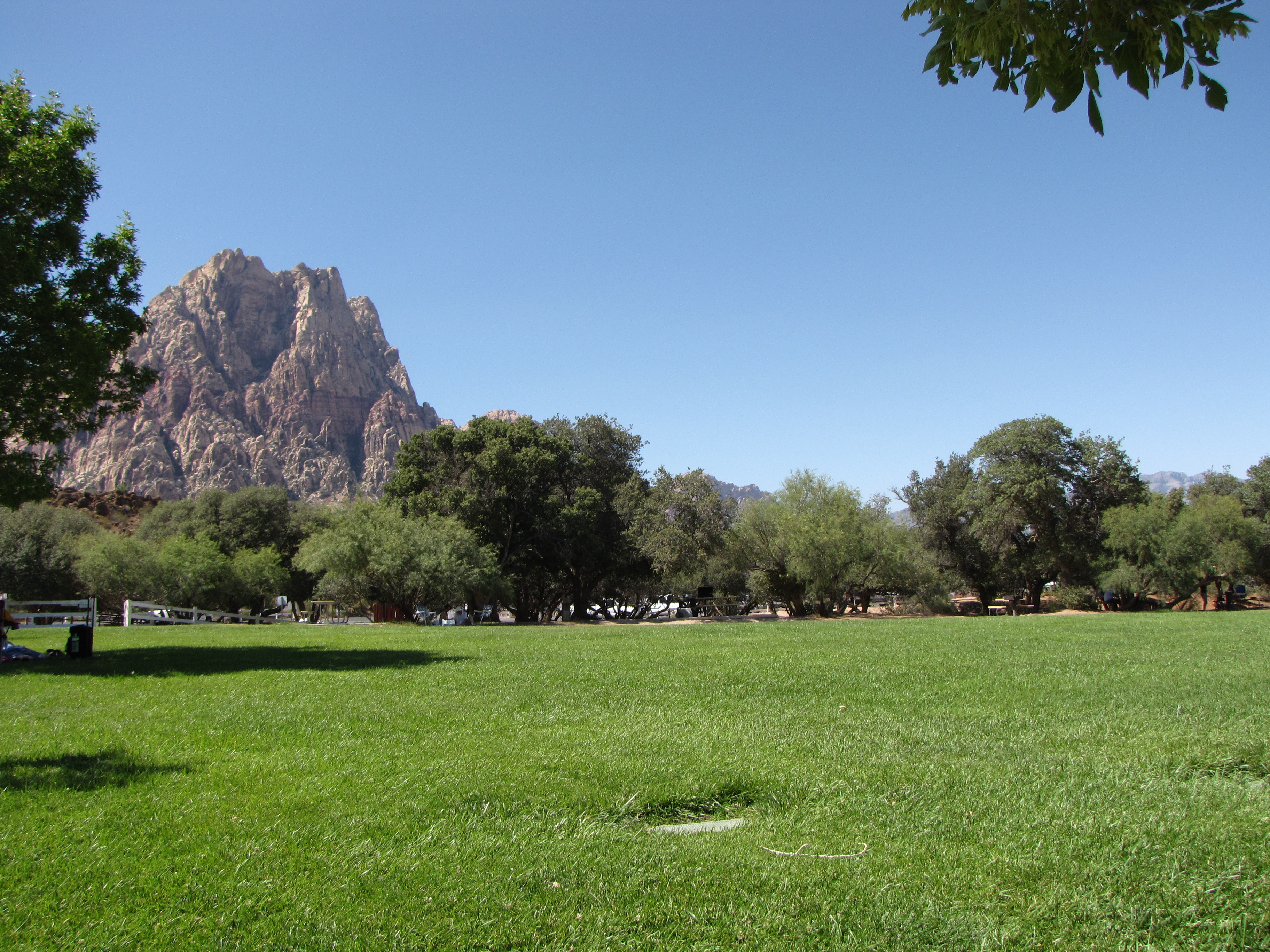 Spring Mountain Ranch State Park field